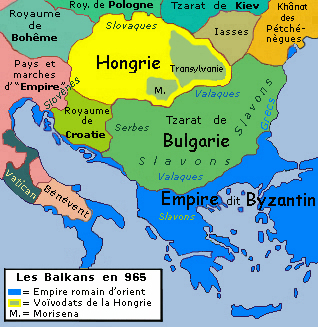 Historic map of Balkan peninsula, year 965